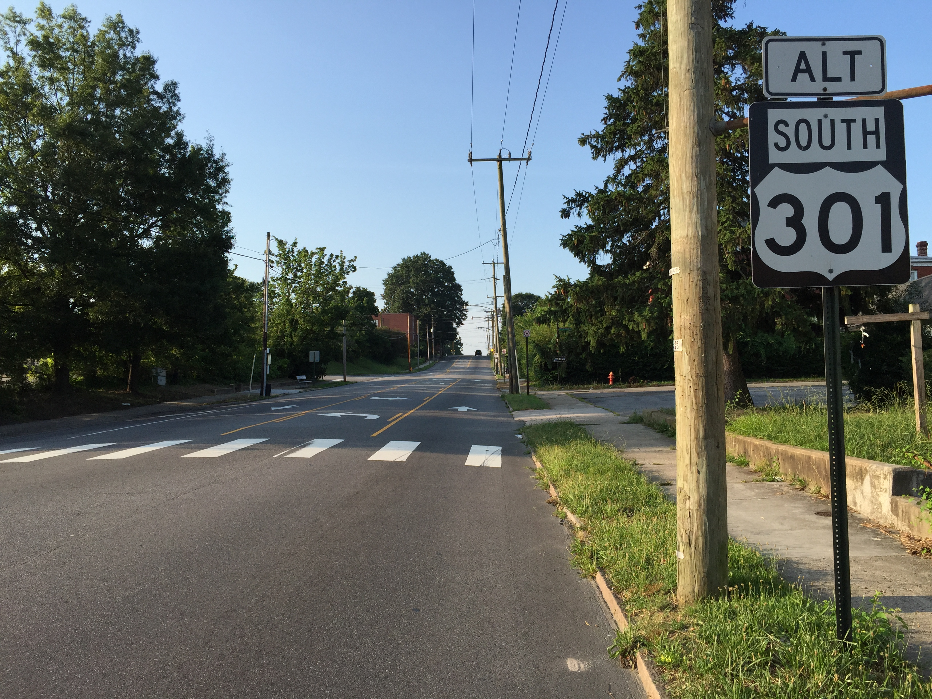 View south along U.S. Route 301 Alternate (Sycamore Street) at Graham Road in Petersburg, Virginia